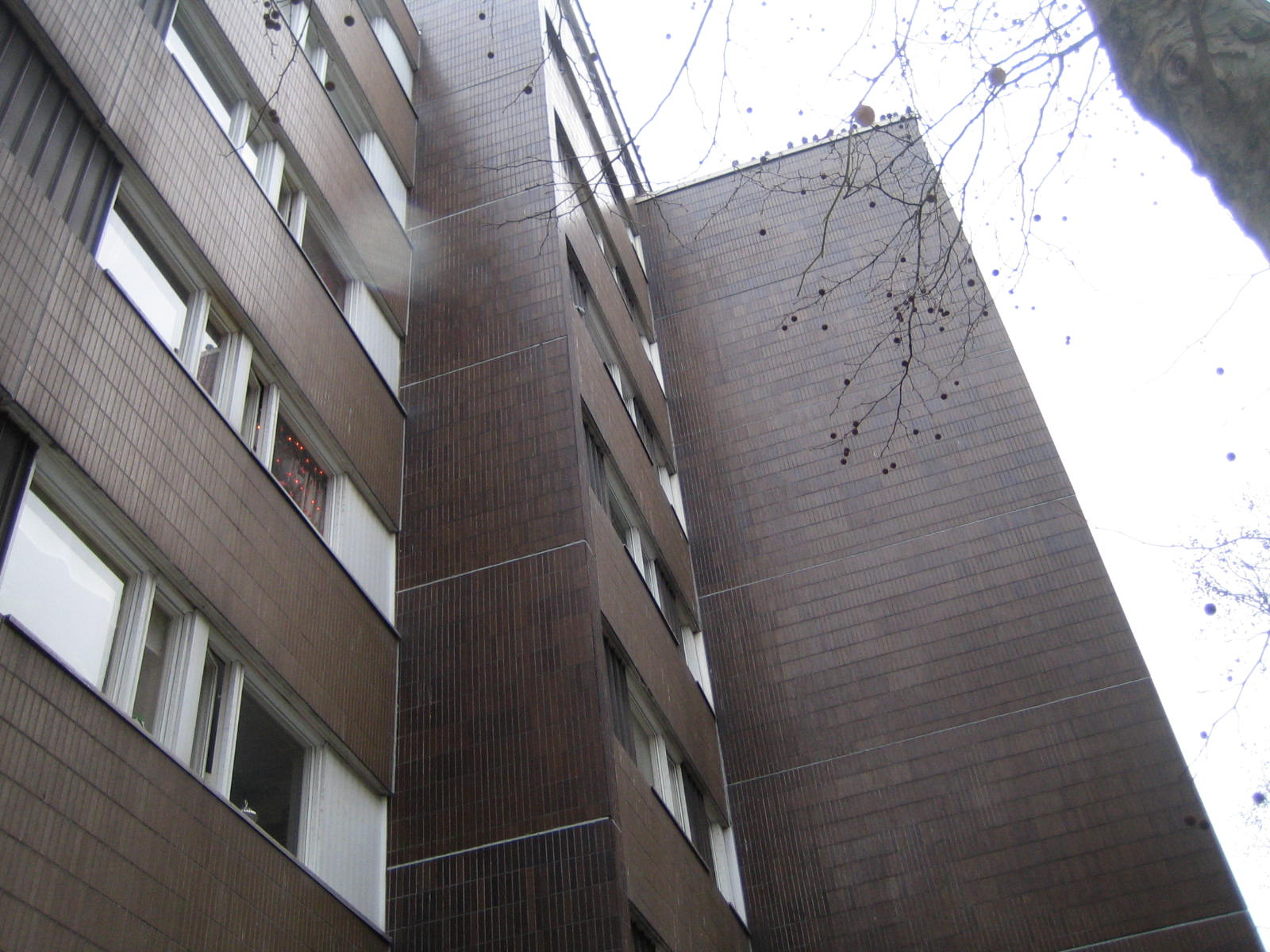 Caroli City 2007.